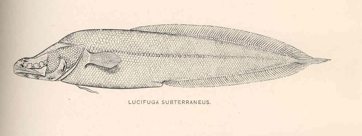 Lucifuga subterraneus Subject: Ophidiidae, Lutifuga Tag: Fish